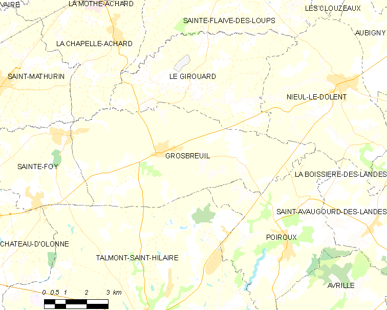 Map of French municipality Grosbreuil